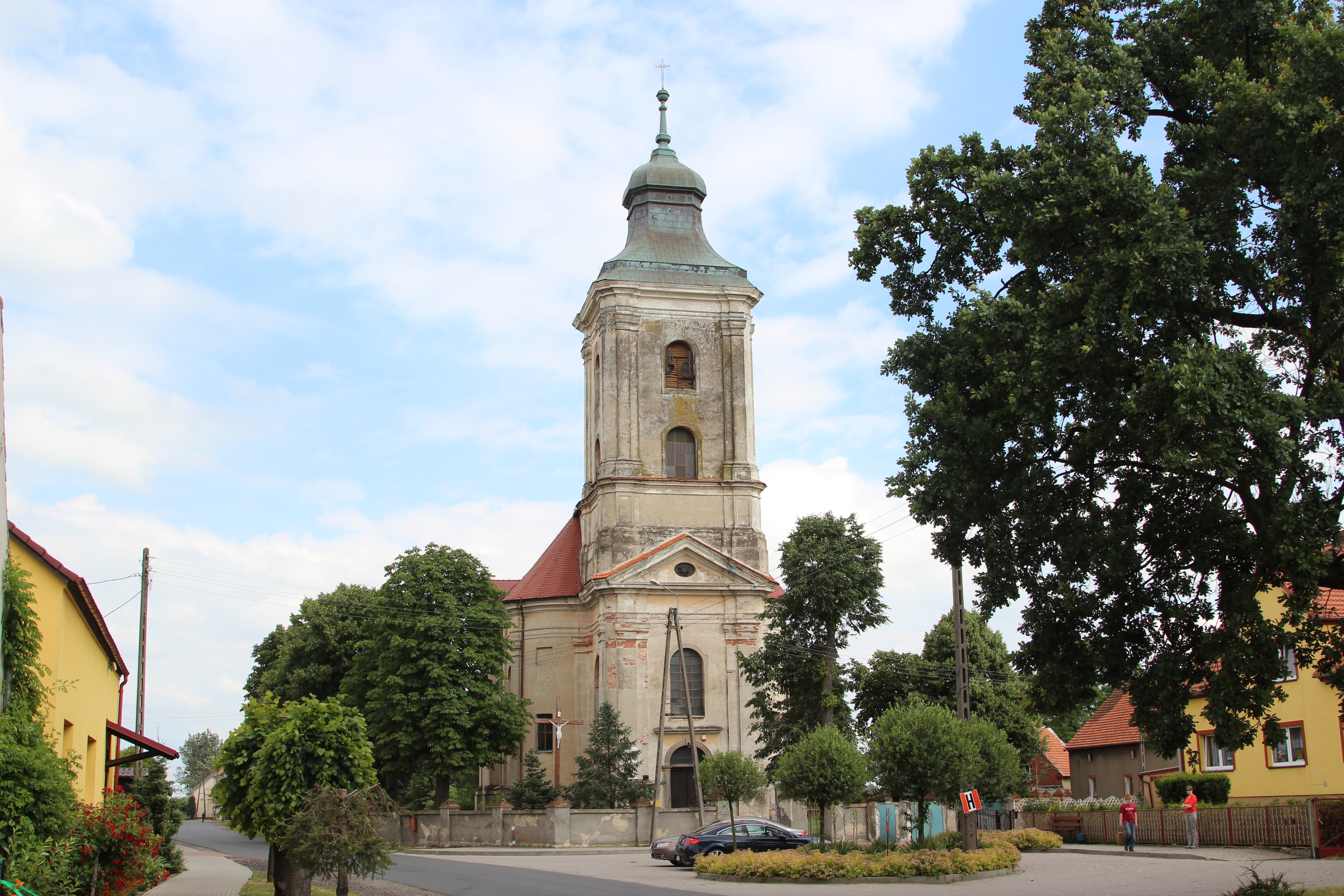 Saint Martin church in Barkowo, Lower Silesian Voivodeship